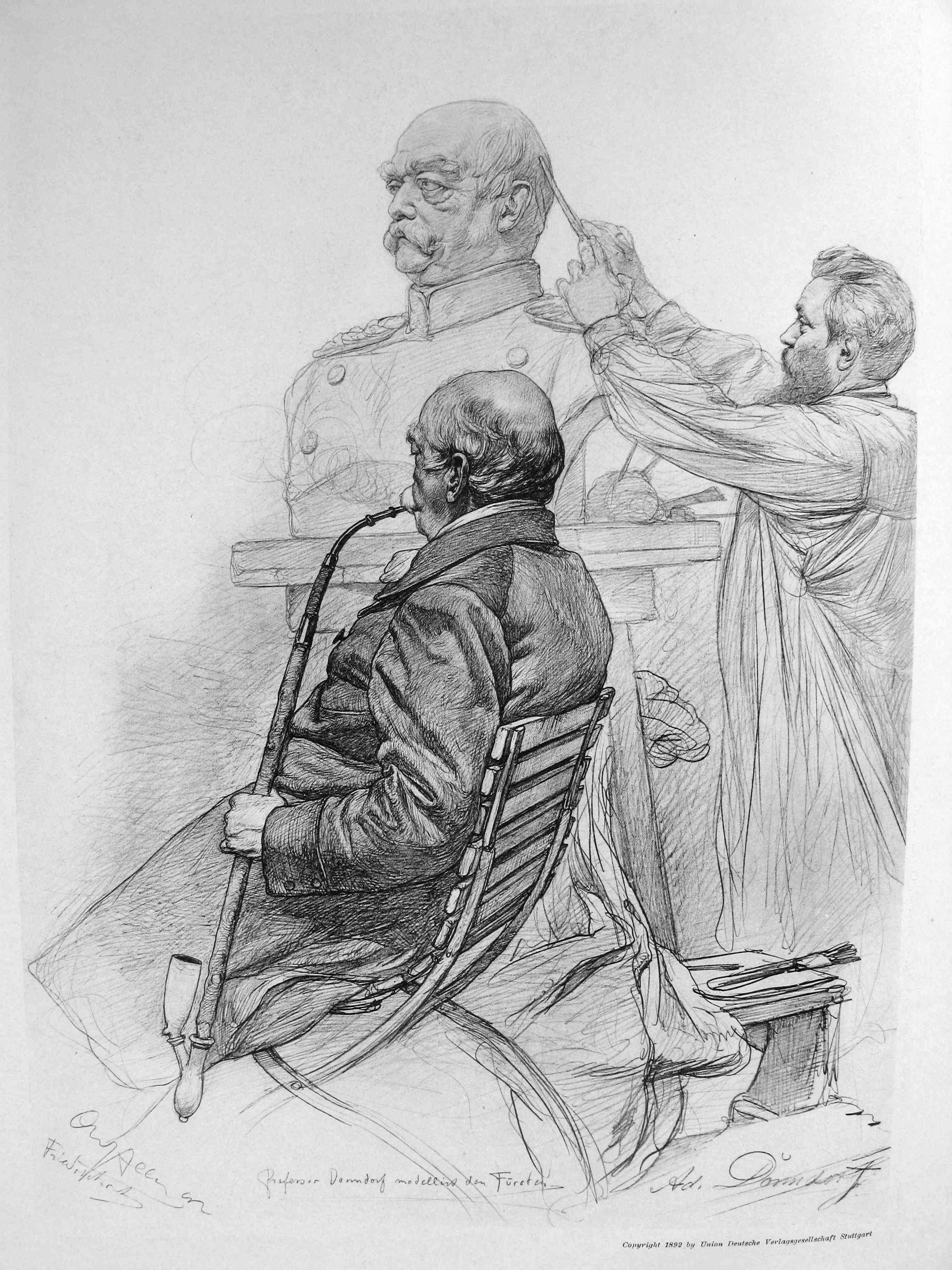 Sculptor Adolf Donndorf working with Bismarck